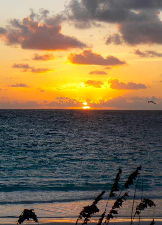 Sunrise from pink sand beach on Harbour Island, Bahamas